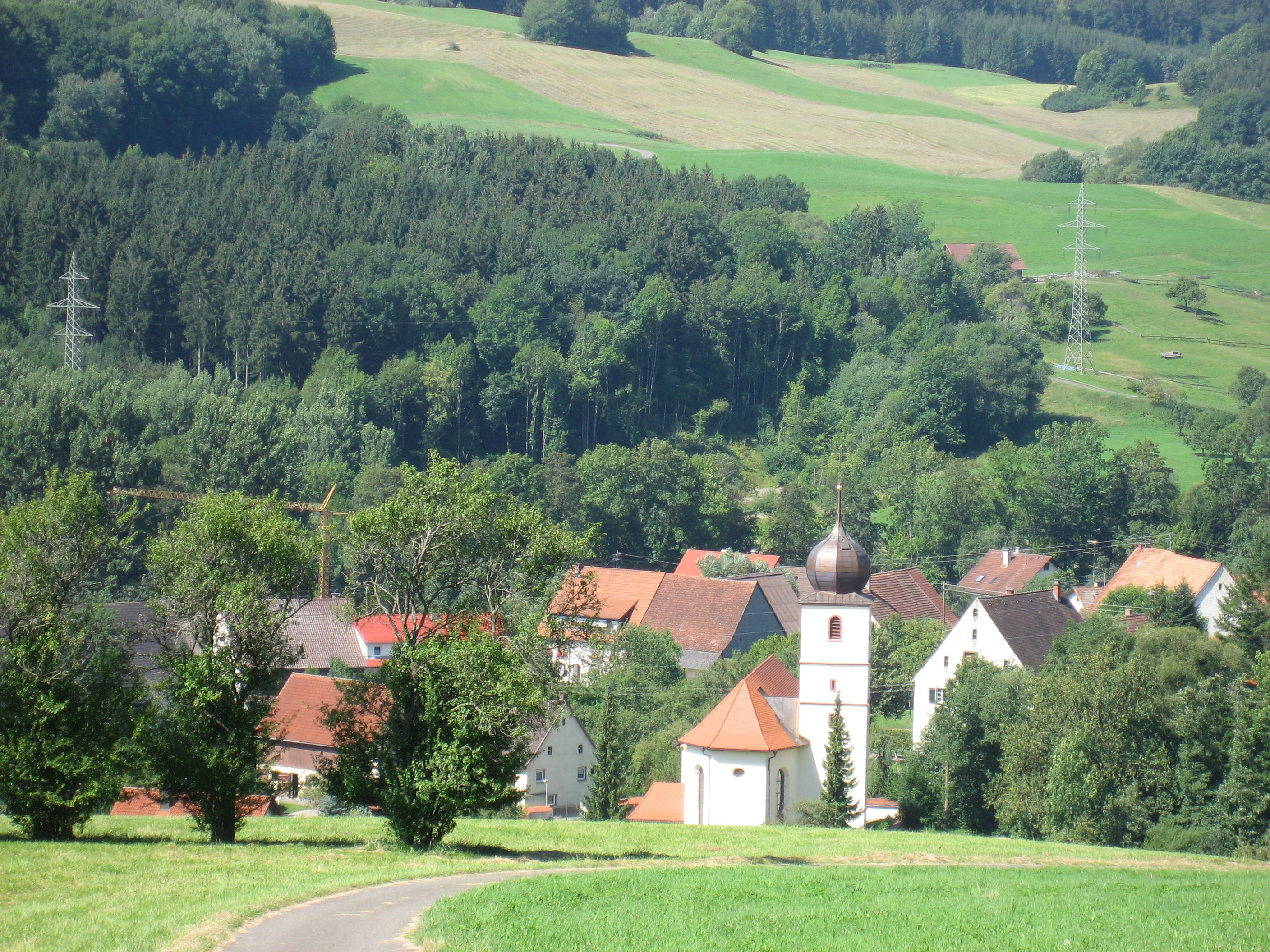 View over the village of Achdorf in Blumberg, Baden-Wurttenburg, Germany